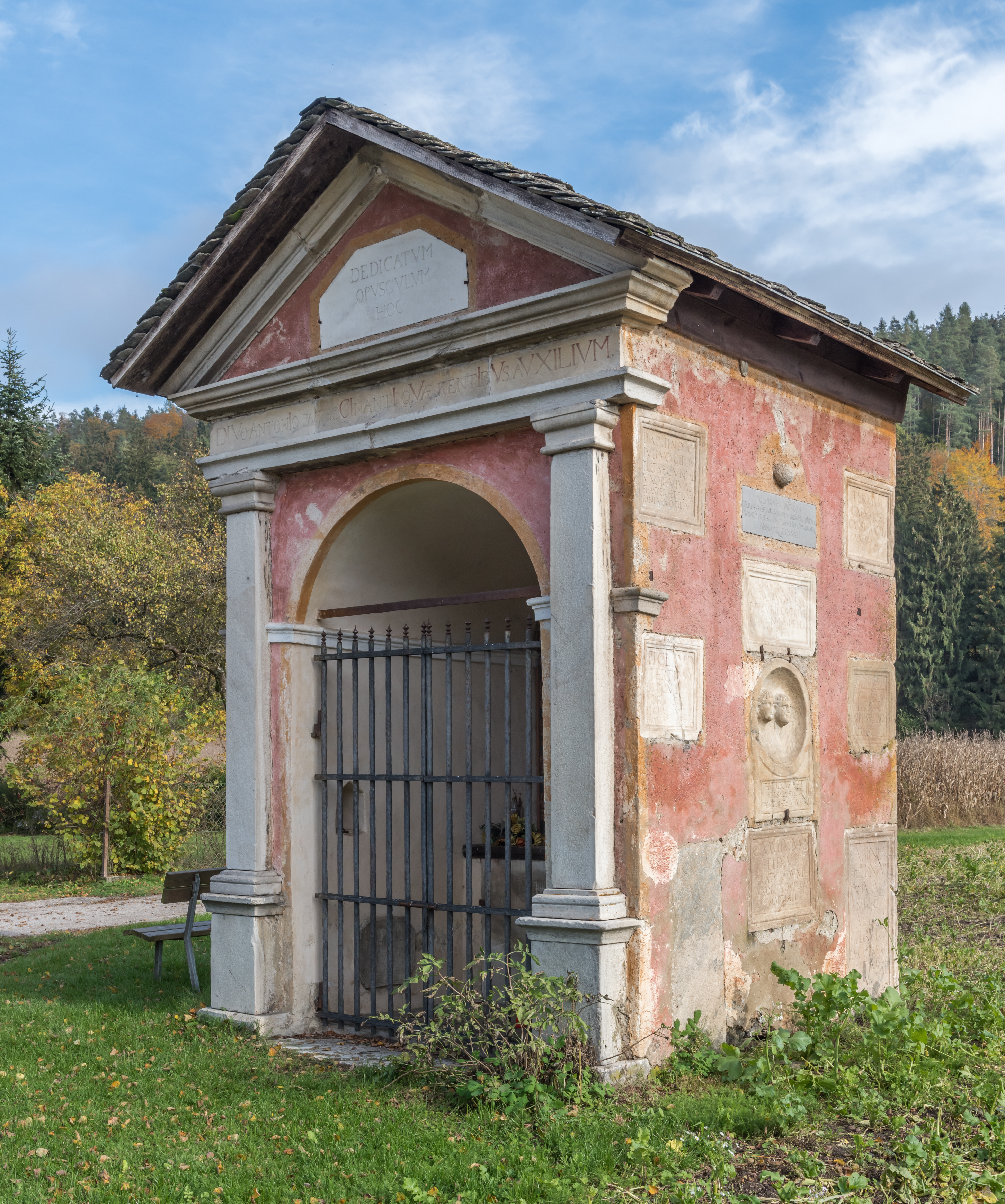 «Prunner Cross» at Virunum, Zollfeld, market town Maria Saal, district Klagenfurt Land, Carinthia, Austria, EU